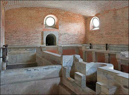 Machine of Marly. House of filters.